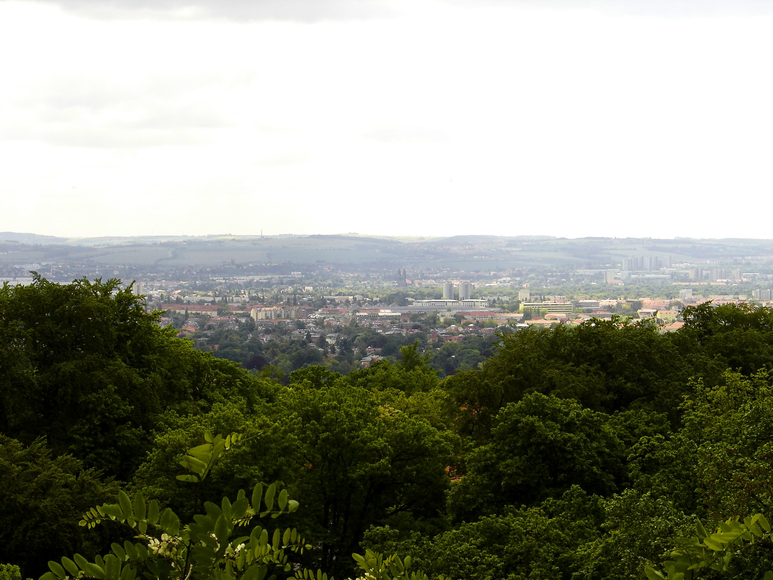 view from Mordgrund (part of the Dresdner Heide Forrest) over the eastern parts of Dresden.